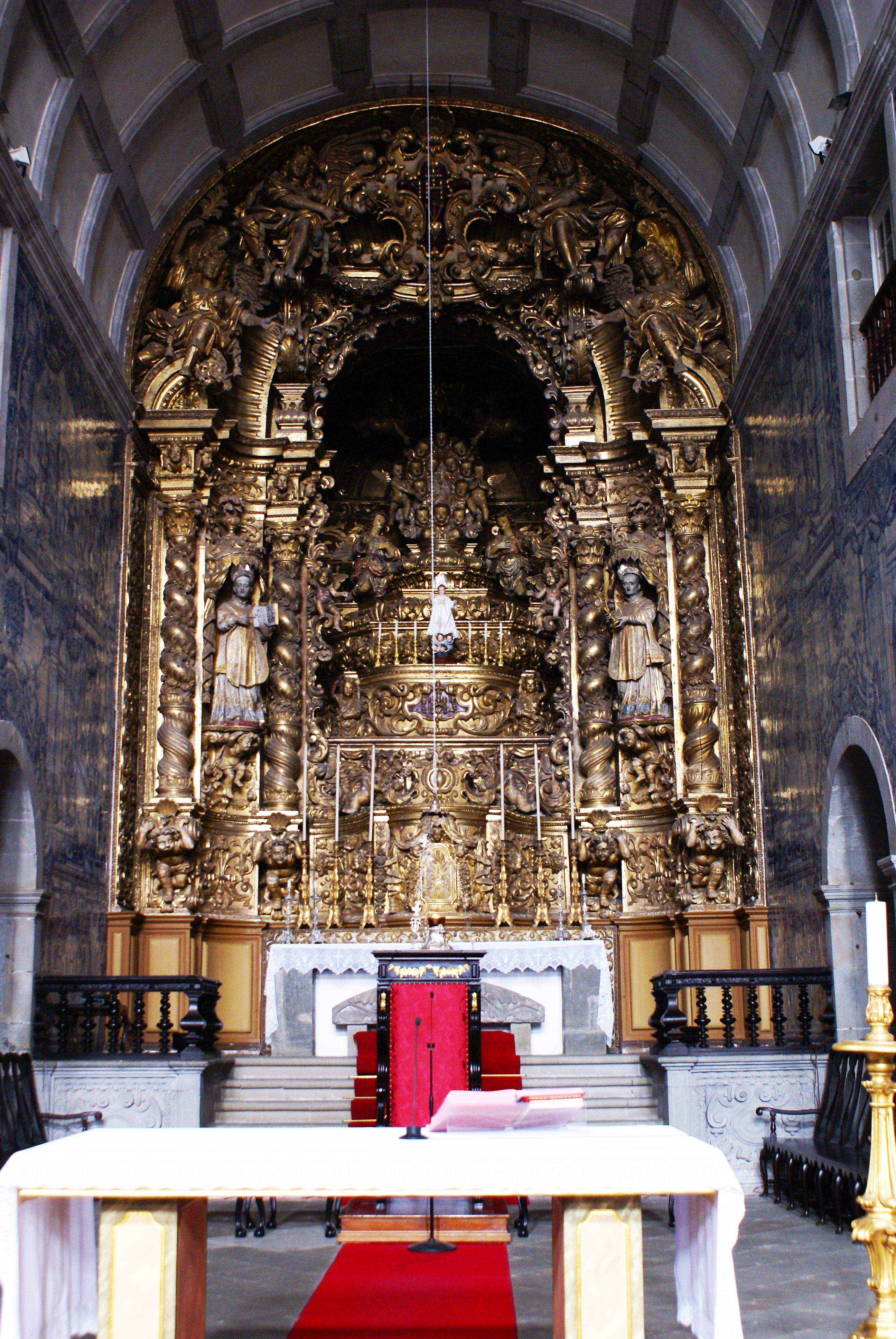 Igreja do Santíssimo Salvador, altar mor, ilha do Faial, Açores, Portugal